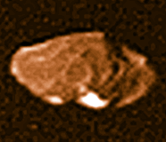 Amalthea, fifth largest moon of Jupiter